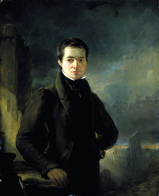 William Bonnar George Meikle Kemp, 1795 - 1844. Architect and designer of the Scott Monument about 1840 Kemp, who had originally trained as a carpenter, was one of the 54 entrants in the 1836 competition for a Walter Scott memorial in Edinburgh. Inspired by medieval ruins and Gothic architecture, he entered under the pseudonym of John Morvo, a name that appears as an inscription on Melrose Abbey and is thought to have been of a mason working on the building. The proposals earned him one of three prizes, and when the competition was rerun in 1838 Kemp won the commission. Initially controversial, his monument to Scott is a striking Gothic structure that dominates Princes street. Sadly, Kemp drowned in the Union Canal before the monument’s completion. His brother-in-law, William Bonnar, the artist of this portrait, supervised the building work until its conclusion. GLOSSARY OPEN Gothic DETAILS Accession no. PG 246 Medium Oil on panel Size 34.30 x 28.00 cm (framed: 53.80 x 46.70 x 6.30 cm) Credit Given by Thomas Bonnar to the National Gallery of Scotland; transferred 1889